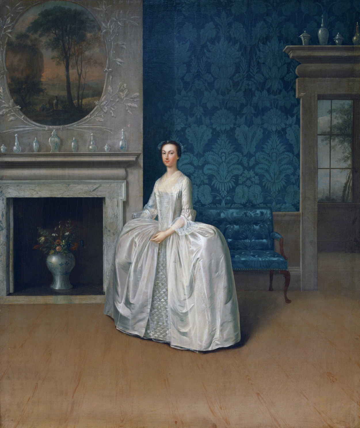 Lady Juliana Penn (née Fermor), wife of Thomas Penn Made on the occasion of her marriage to Thomas Penn